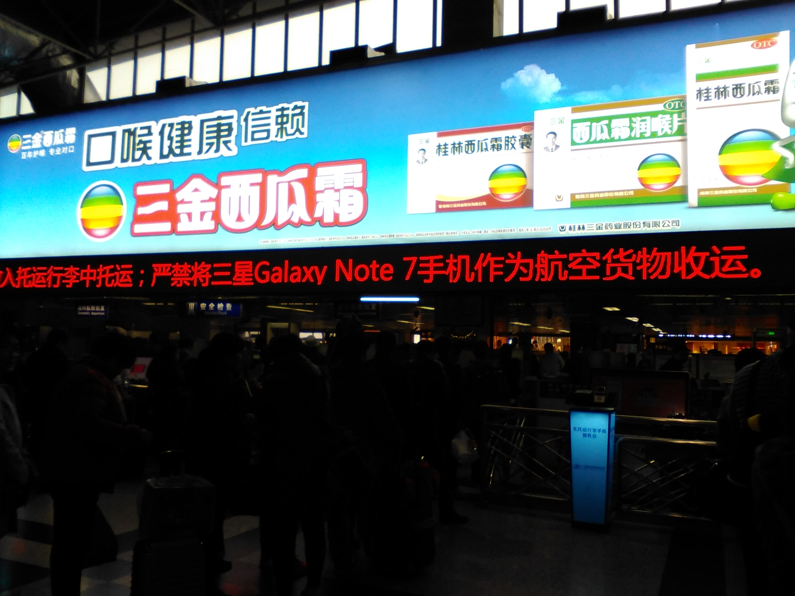 Security Check entrance of Guilin Liangjiang International Airport. The electronic display shows passengers not to bring Samsung Galaxy Note 7 smartphone onto any flight.